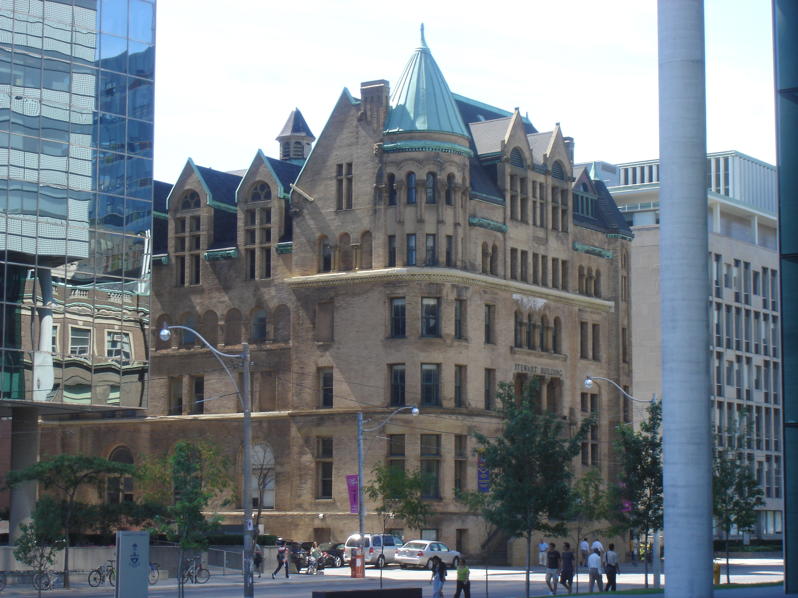 Stewart Building, Toronto